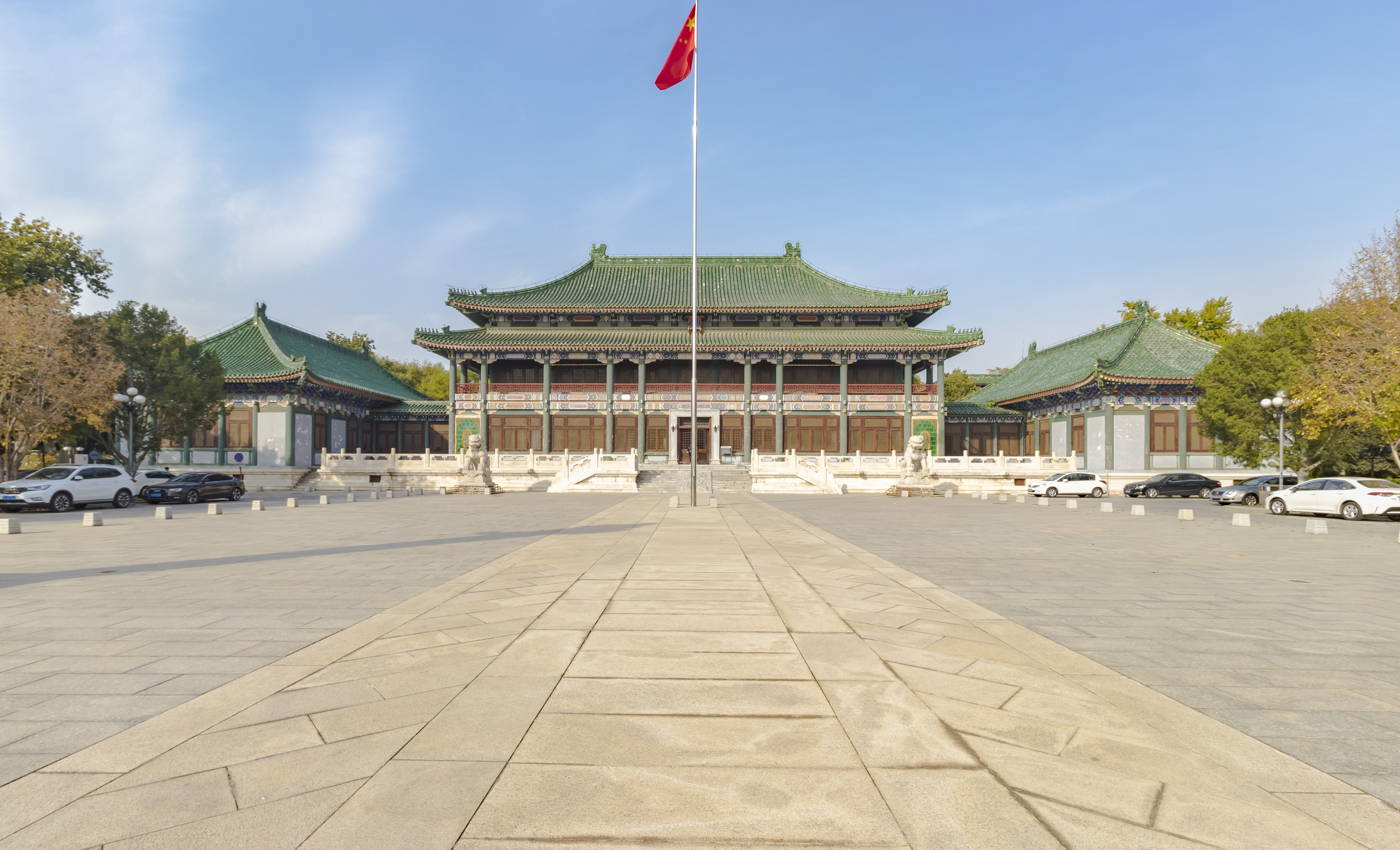 NLC Ancient Books Library, Xicheng District, Beijing